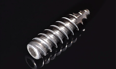 پیچ مورد استفاده در درمان شکستگی استخوان که از منیزیم ساخته شده است و توسط بدن جذب می شود.